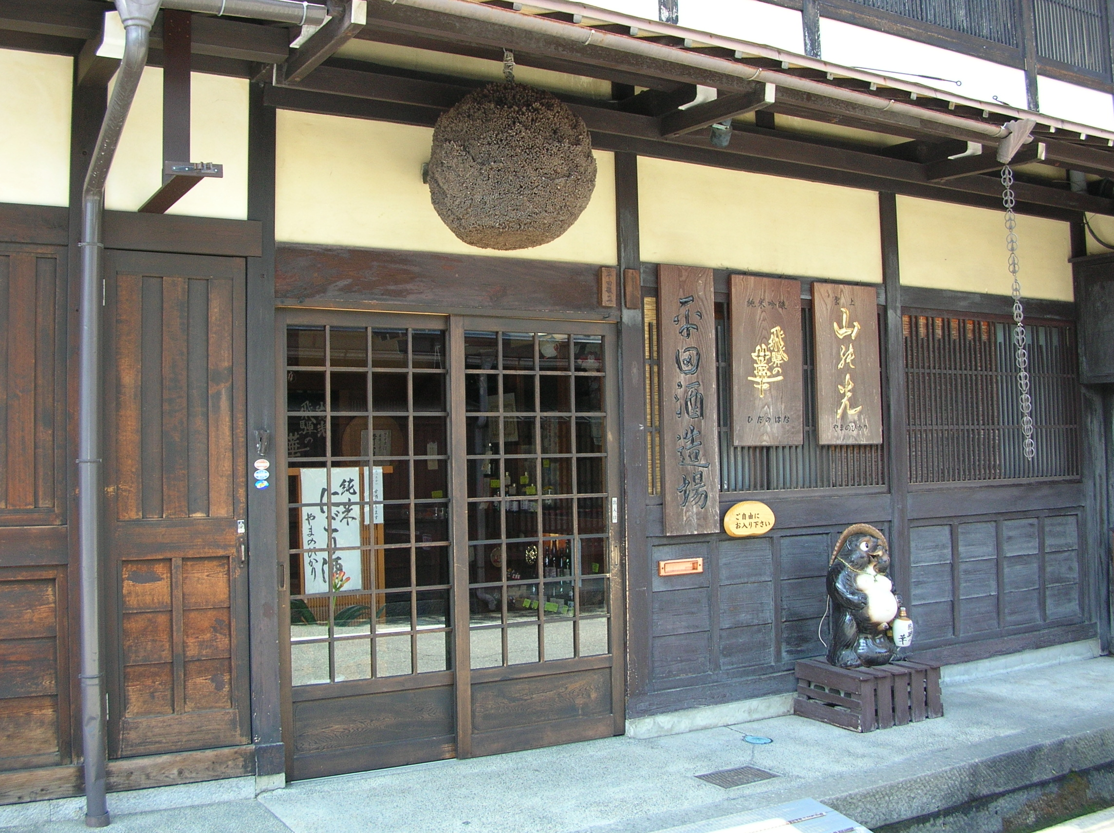 Sake brewery, Takayama, Gifu Prefecture, Japan